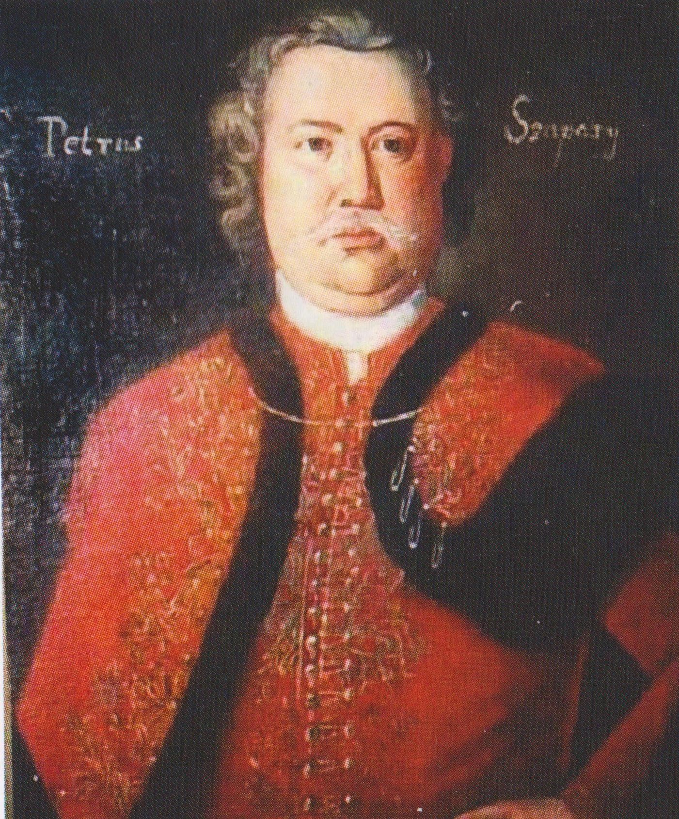 Portrait of Baron Péter Szapáry (1630–1703), first prominent member of the Hungarian noble Szapáry family.